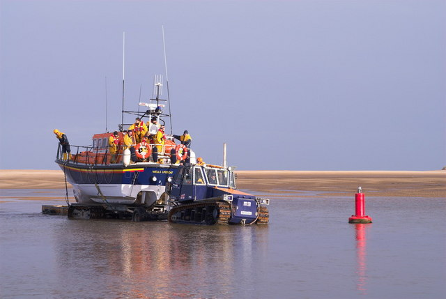 Wells-Next-The-Sea Lifeboat Coming Home